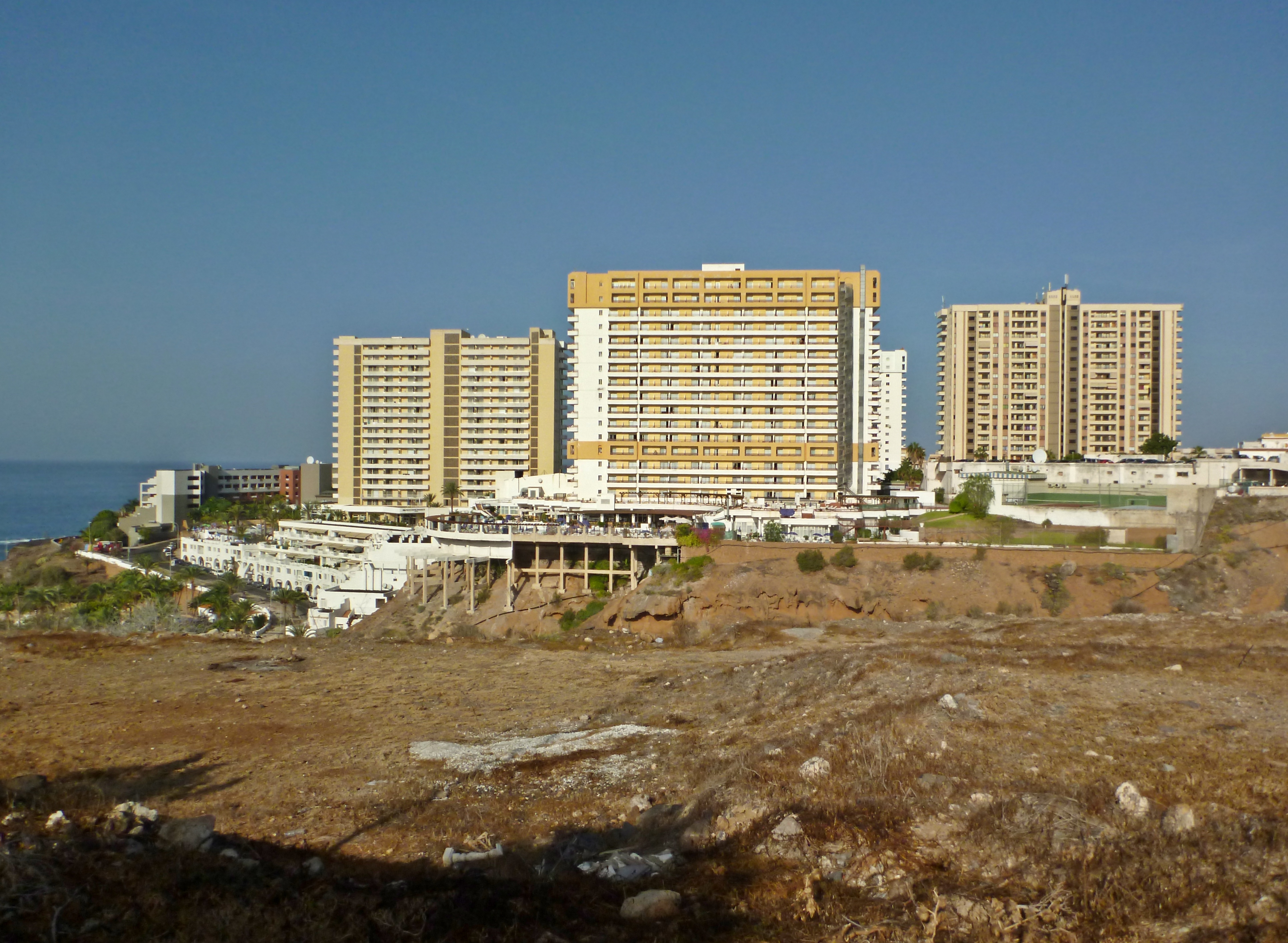 Playa Paraíso, hotel towers from south